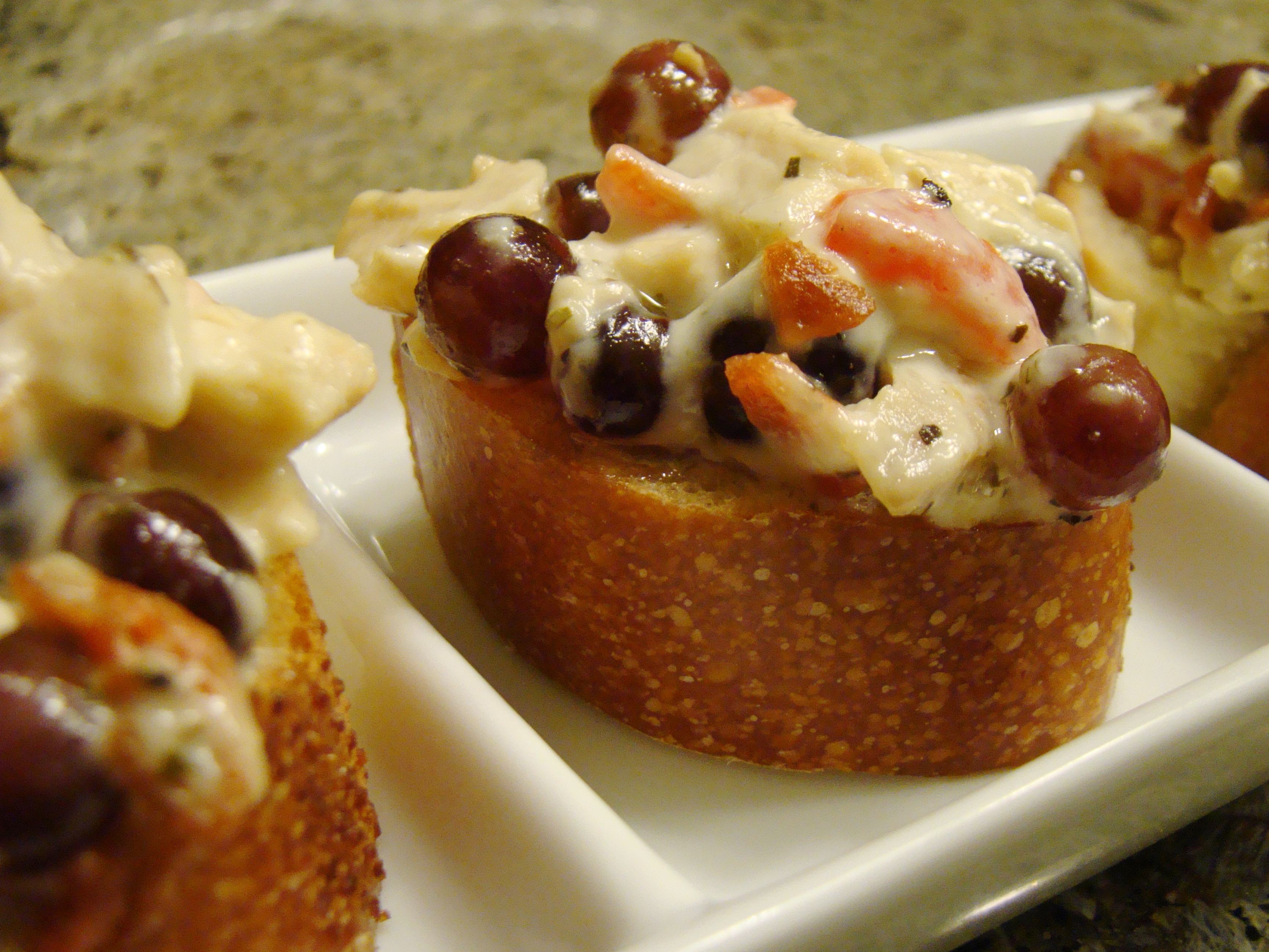 Seitan Chicken with Tempeh Bacon, and Champagne Grapes with Truffle Oil Crostini